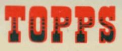 1950s Topps brand name